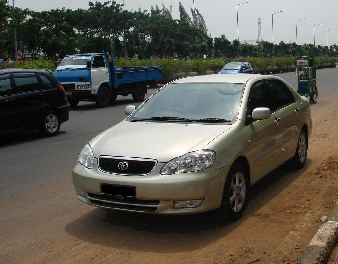 2002 Toyota Corolla (ZZE122) Altis 1.8 G.